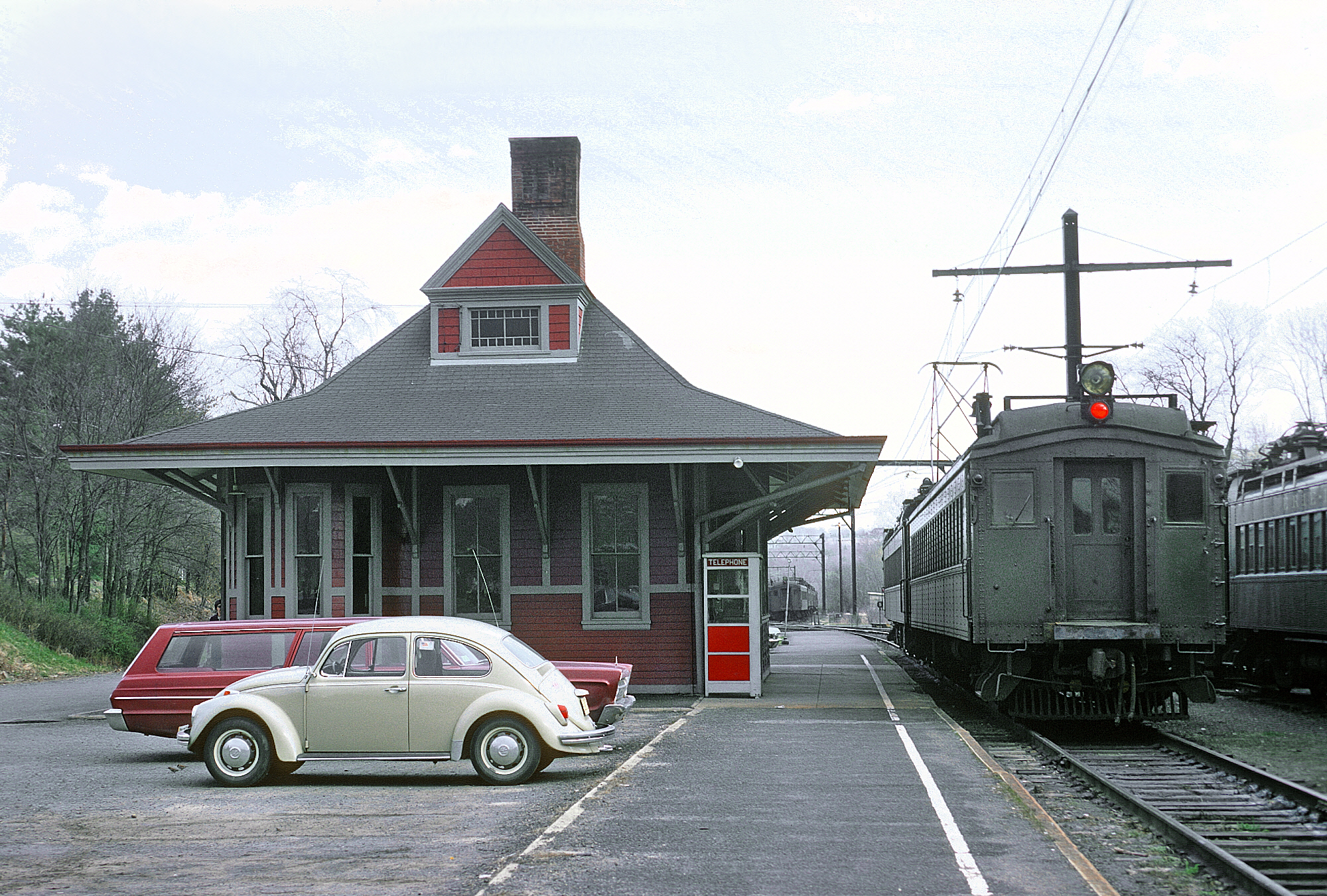 A Roger Puta Photograph: Gladstone station of the Delaware, Lackawanna and Western Railroad on April 25, 1970.